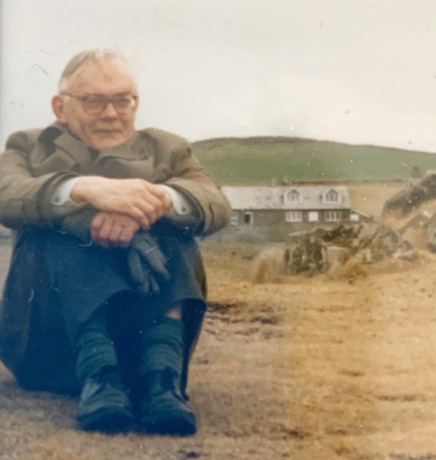 Roger Highfield in Cornwall in 1990, photographed during a History Reading Trip